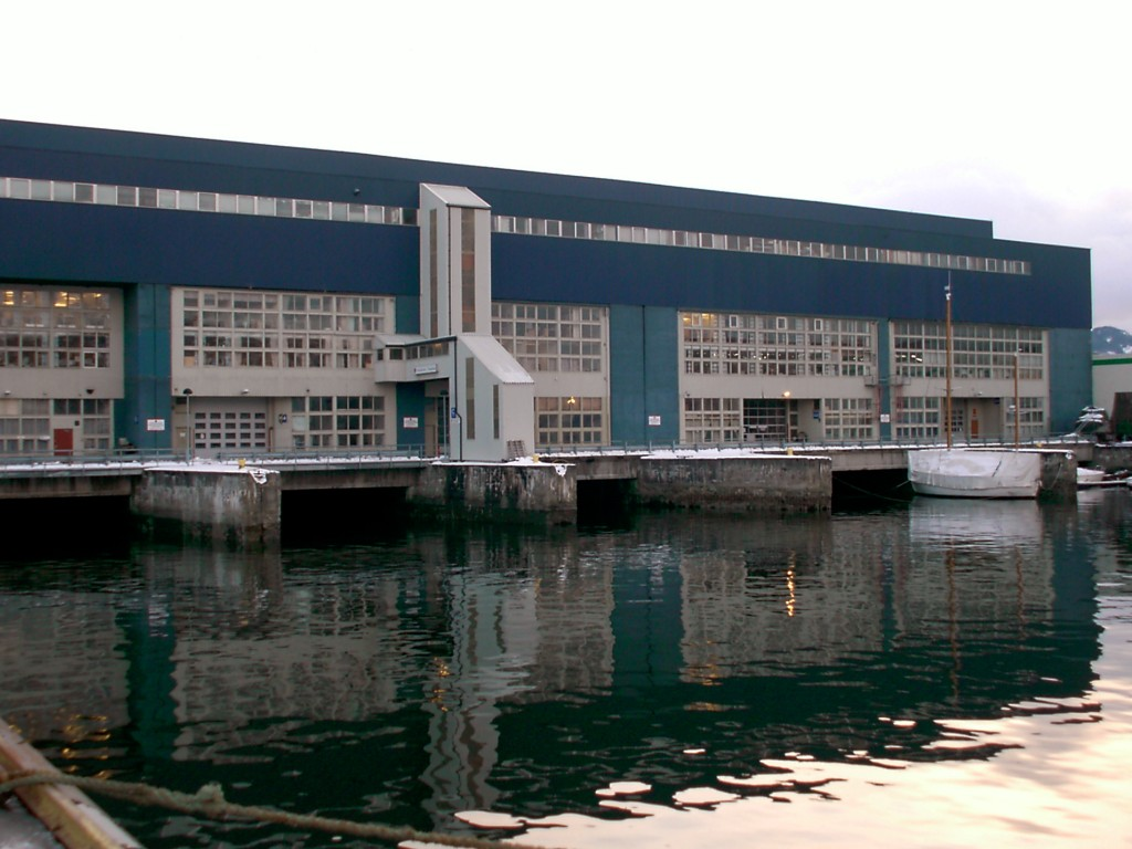 Piers in the WWII DORA 1 submarine base in Trondheim. For a closer picture of one of them, see thumb|125px|center. Picture taken and released into the public domain by User:Kallemax.